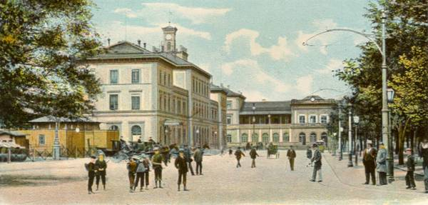 Old Railway stations of Darmstadt (Hesse), Germany: Left Main-Neckar-Railway; ahead: Hessian Ludwig's Railway.